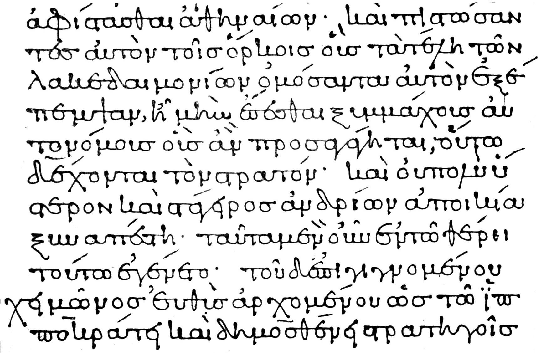 Tenth-century minuscule Manuscript of Thucydides's History. From Sir Edward Maunde Thompson "An Introduction to Greek and Latin Palaeography" OUP 1912